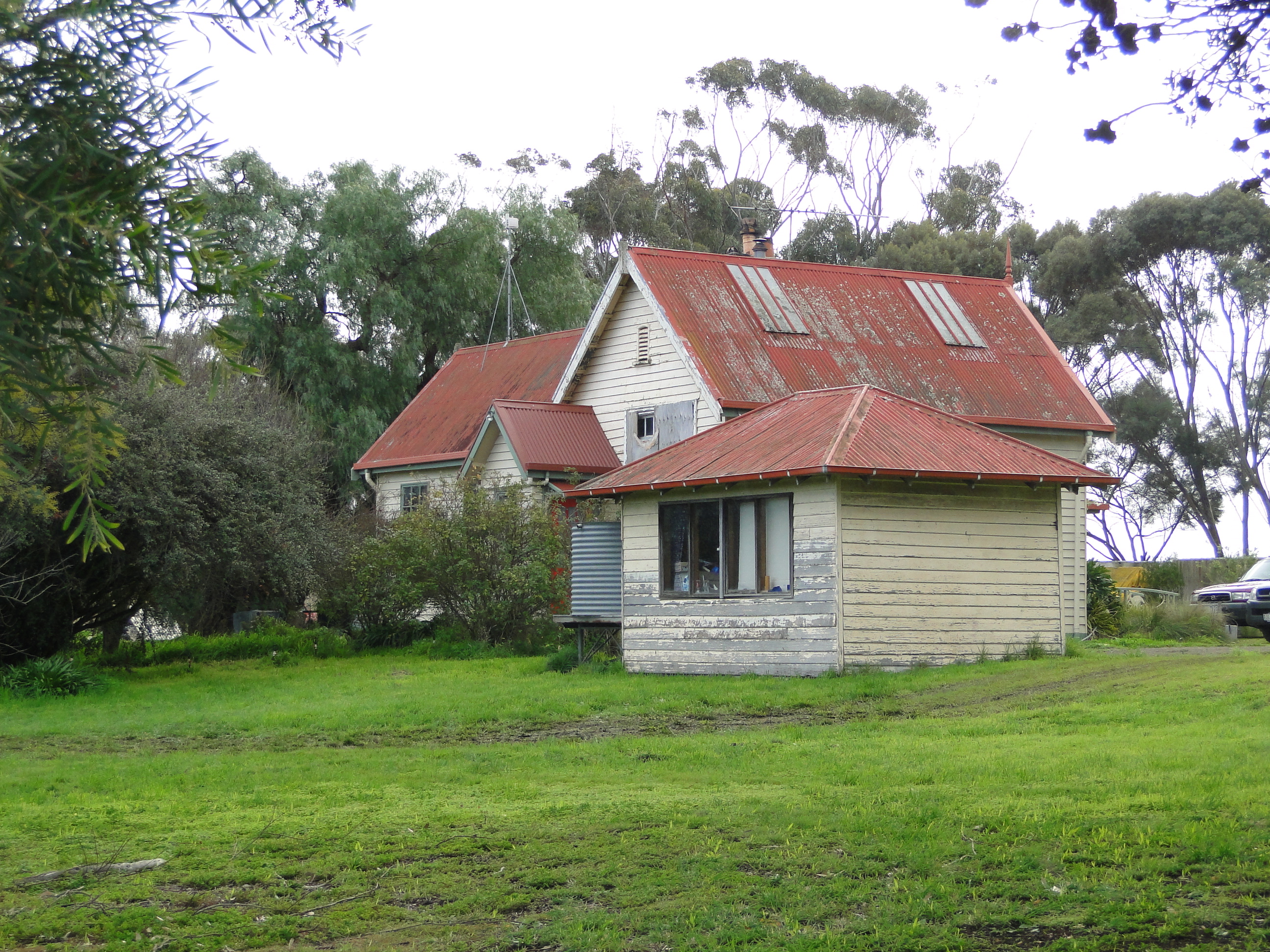 The former primary school at Stonehaven, Victoria, Australia